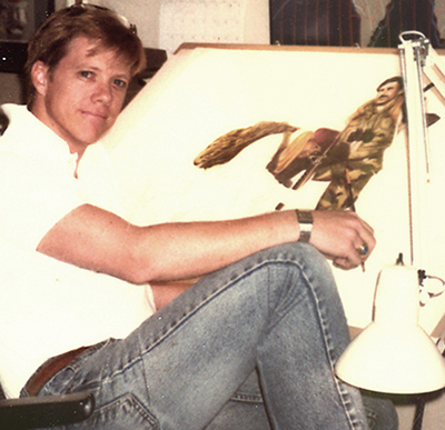 Veteran video game cover illustrator Marc Ericksen at his drawing board, in 1993, at 1045 Sansome Street, North Beach, San Francisco, California.